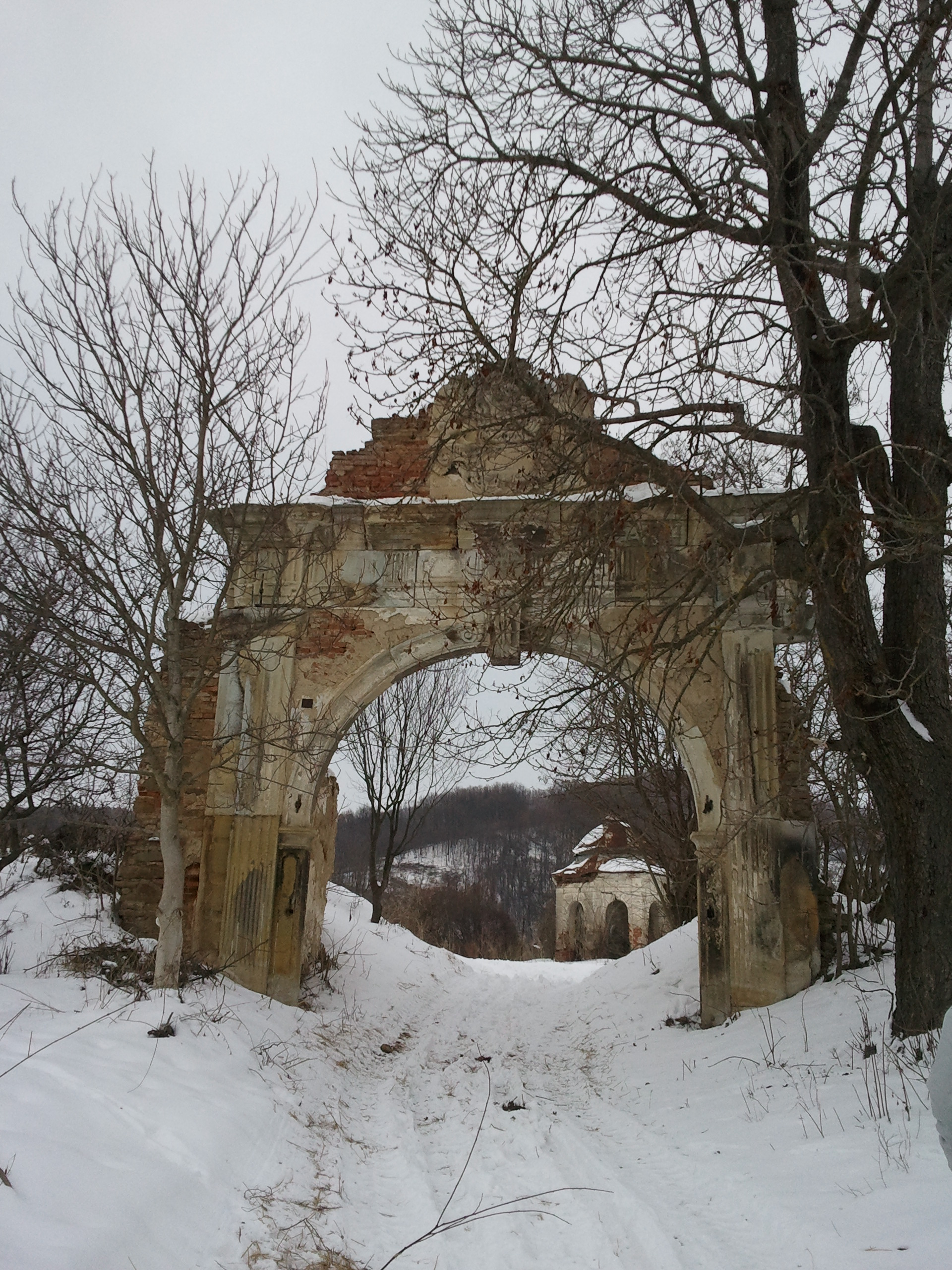 Csákigorbó/Gîrbou castle entrance 1